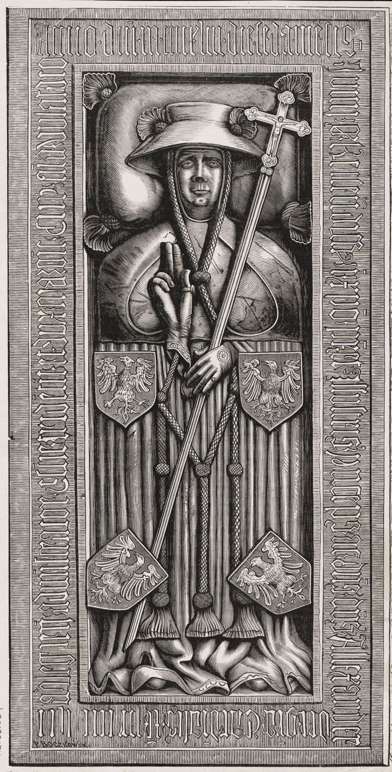 Alexander of Masovia tomb effigy in Stephansdom in Vienna (woodcut)